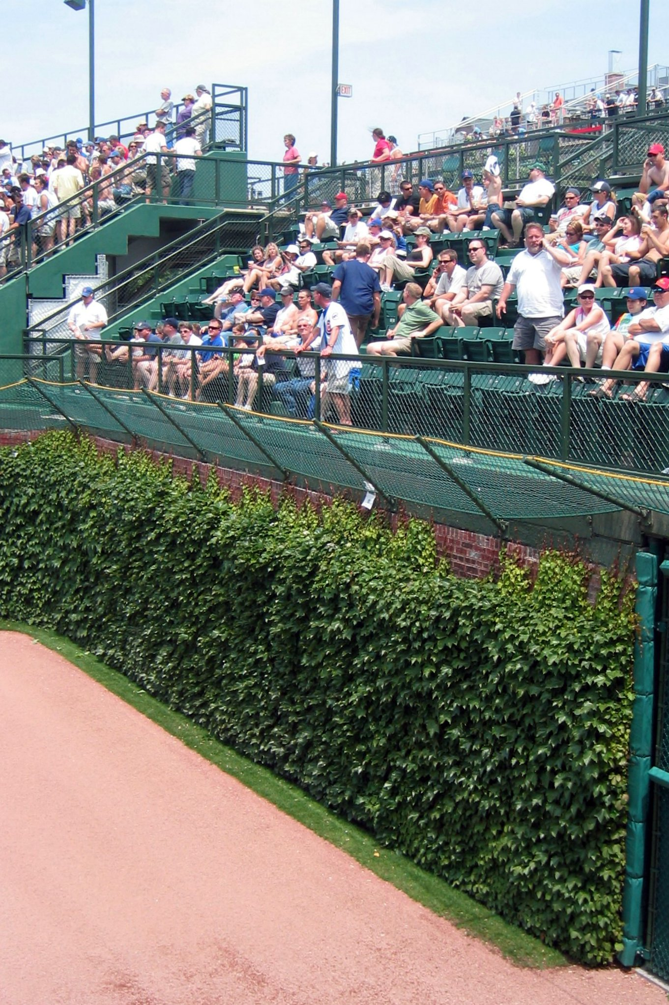 Wrigley Field